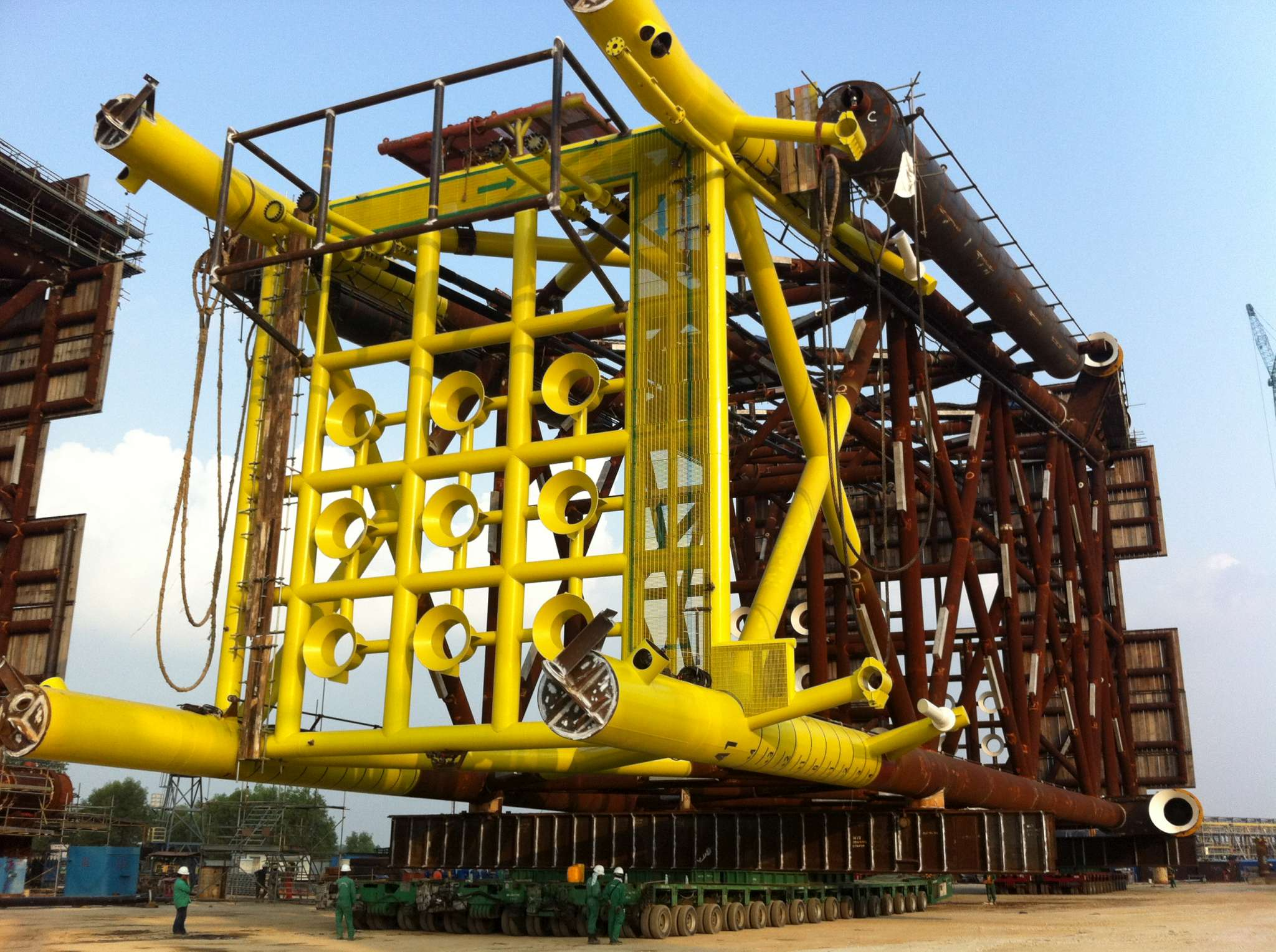 Transporting with C type of Self-Propelled Modular Transporter (SPMT)